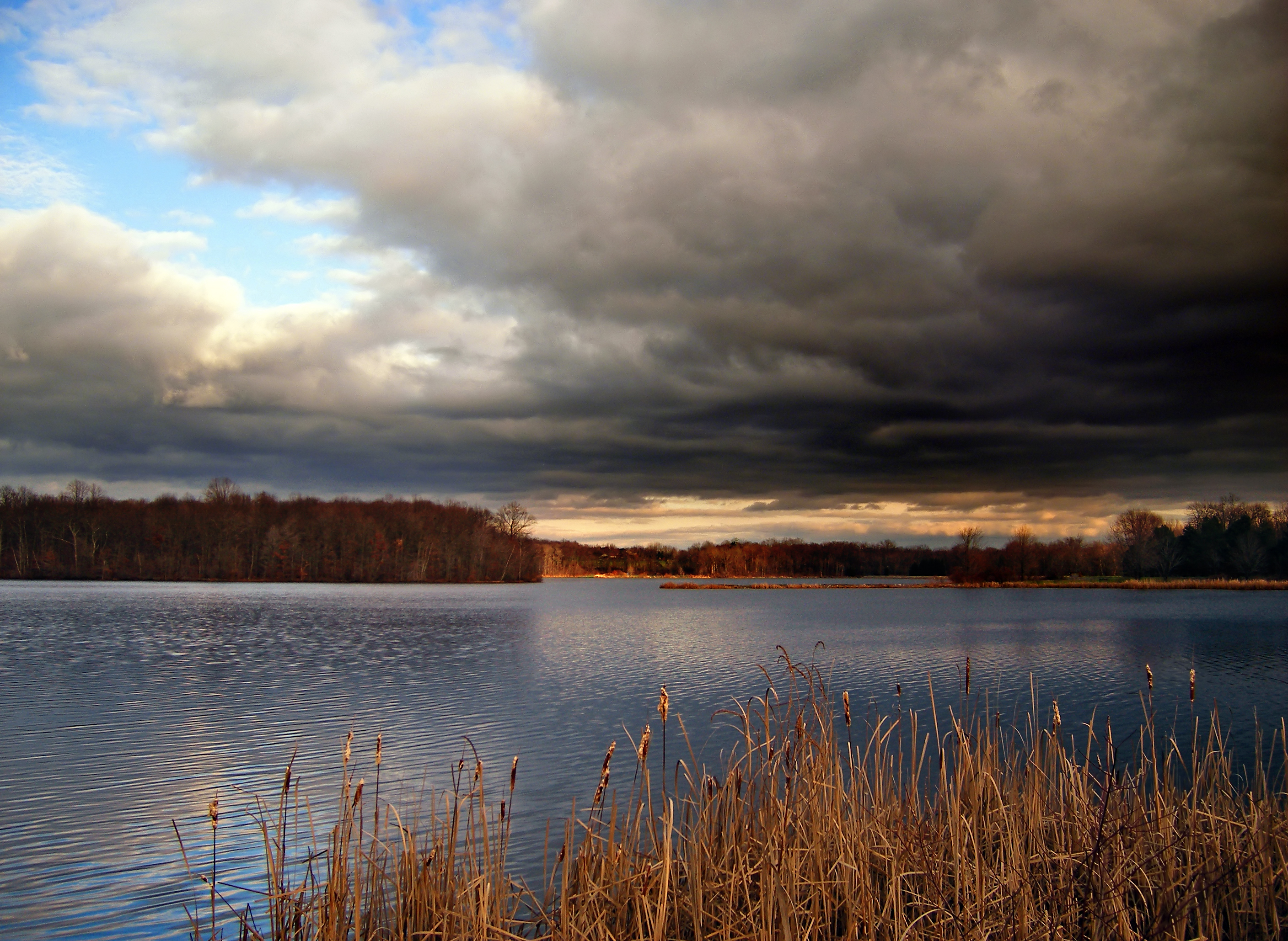 Dark stratocumulus clouds scenery, Minsi Lake, Northampton County.